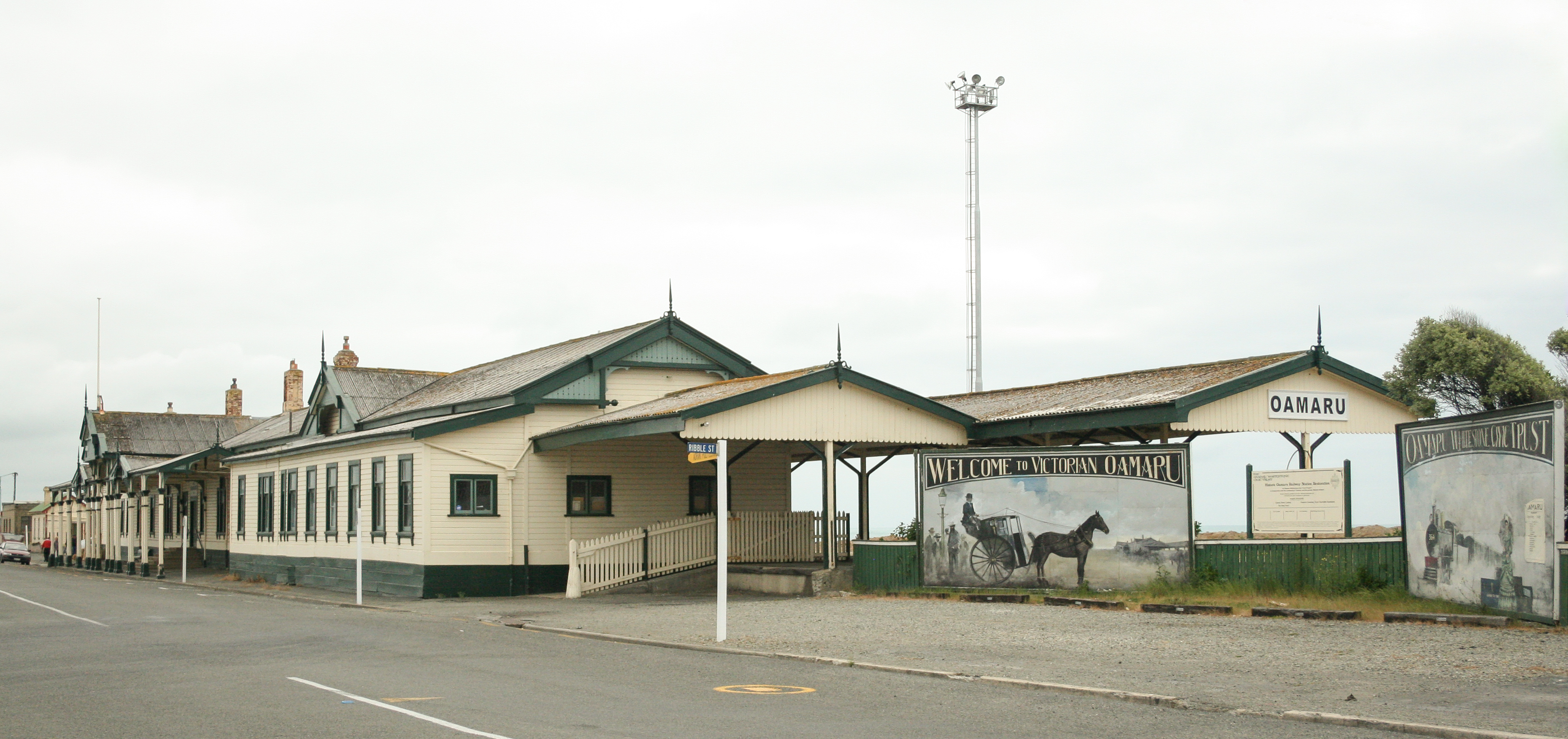 Oamaru, New Zealand